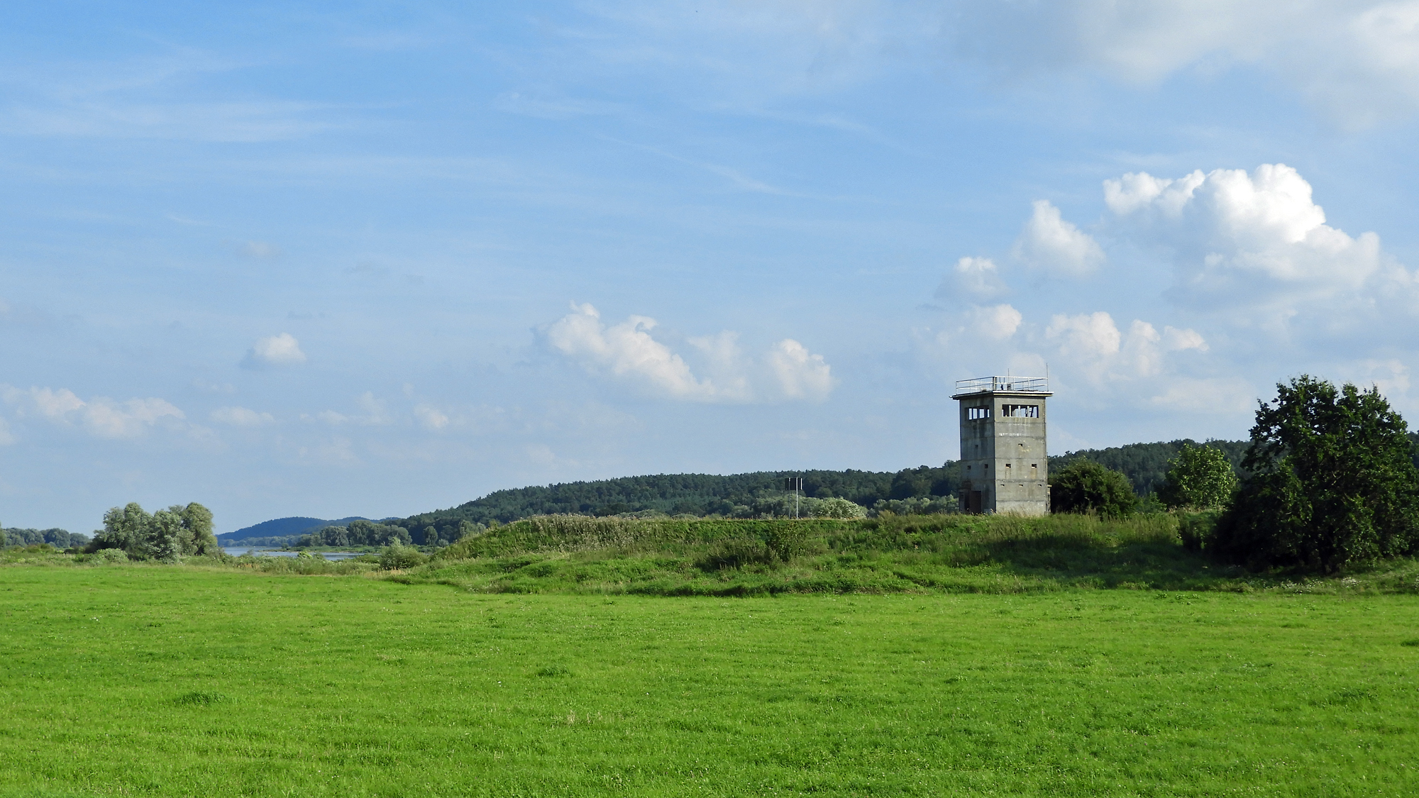 Remnant of a watchtower of the GDR border regime in today's municipality "Amt Neuhaus", southeast of the village Darchau in the dyke foreland of the Elbe river. In the background the wooded, hilly west side of the Elbe (district Lüchow-Dannenberg), in between the Elbe itself. (District Lüneburg, north-eastern Lower Saxony, Germany).